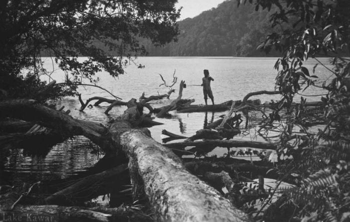 Lake Lau Kawar at the foot of the Sinabung volcano